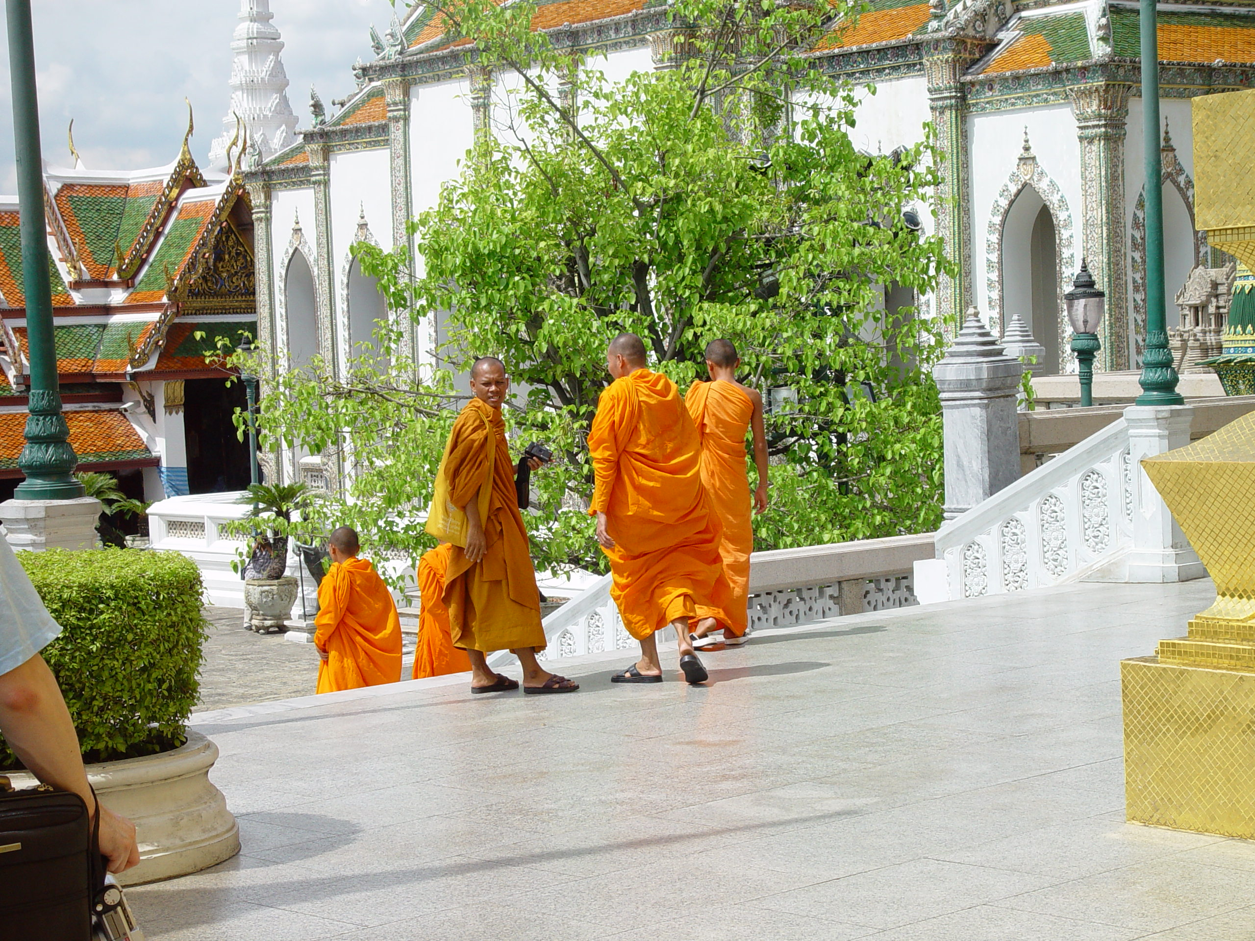 Group of Buddhist monks in Wat Phra Kaeo temple, Bangkok I have taken this photo myself in mid en:2004 with my own Sony DSC-707.